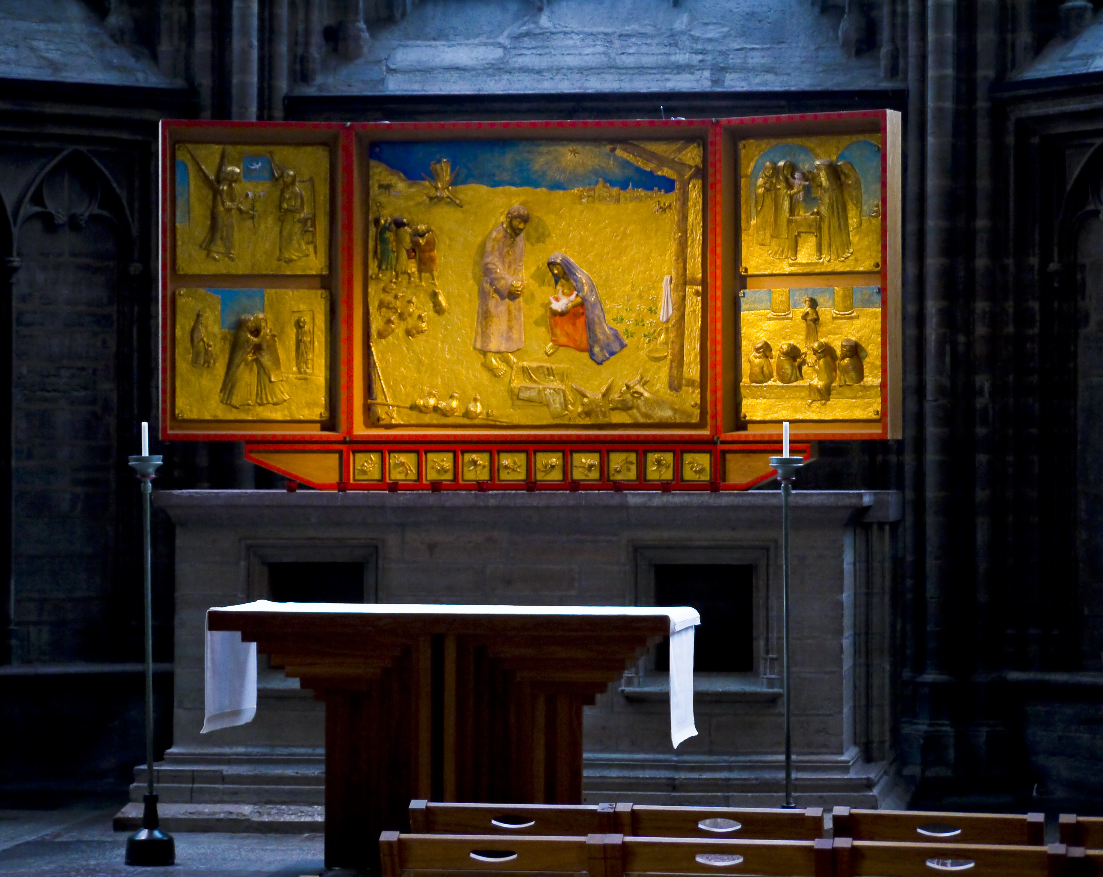 Linköping Cathedral, Linköping, Sweden. Side altar.